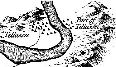 Detail of Henry Timberlake's 1765 "Draught of the Cherokee Country," showing the location and layout of the Cherokee town of Tallassee. The Tallassee site is now submerged under Chilhowee Lake on the border between modern-day Monroe County and Blount County, Tennessee, in the southeastern United States. The Calderwood area is now situated along the shoreline above the site.